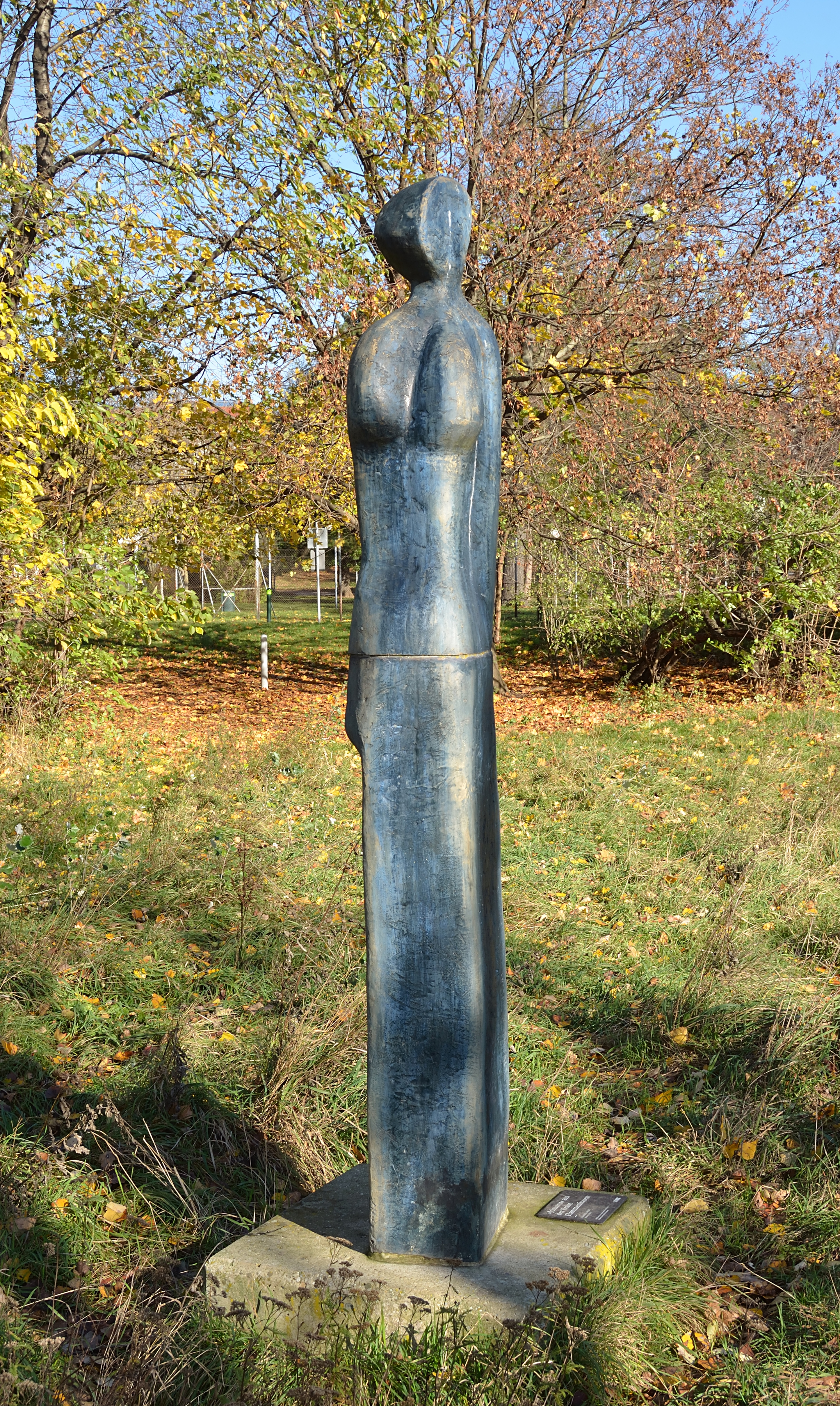 Flammenfrau Johanna by Charlotte Seidl in the Viennese Auer-Welsbach-Park. Created in 2002 acc. to label.